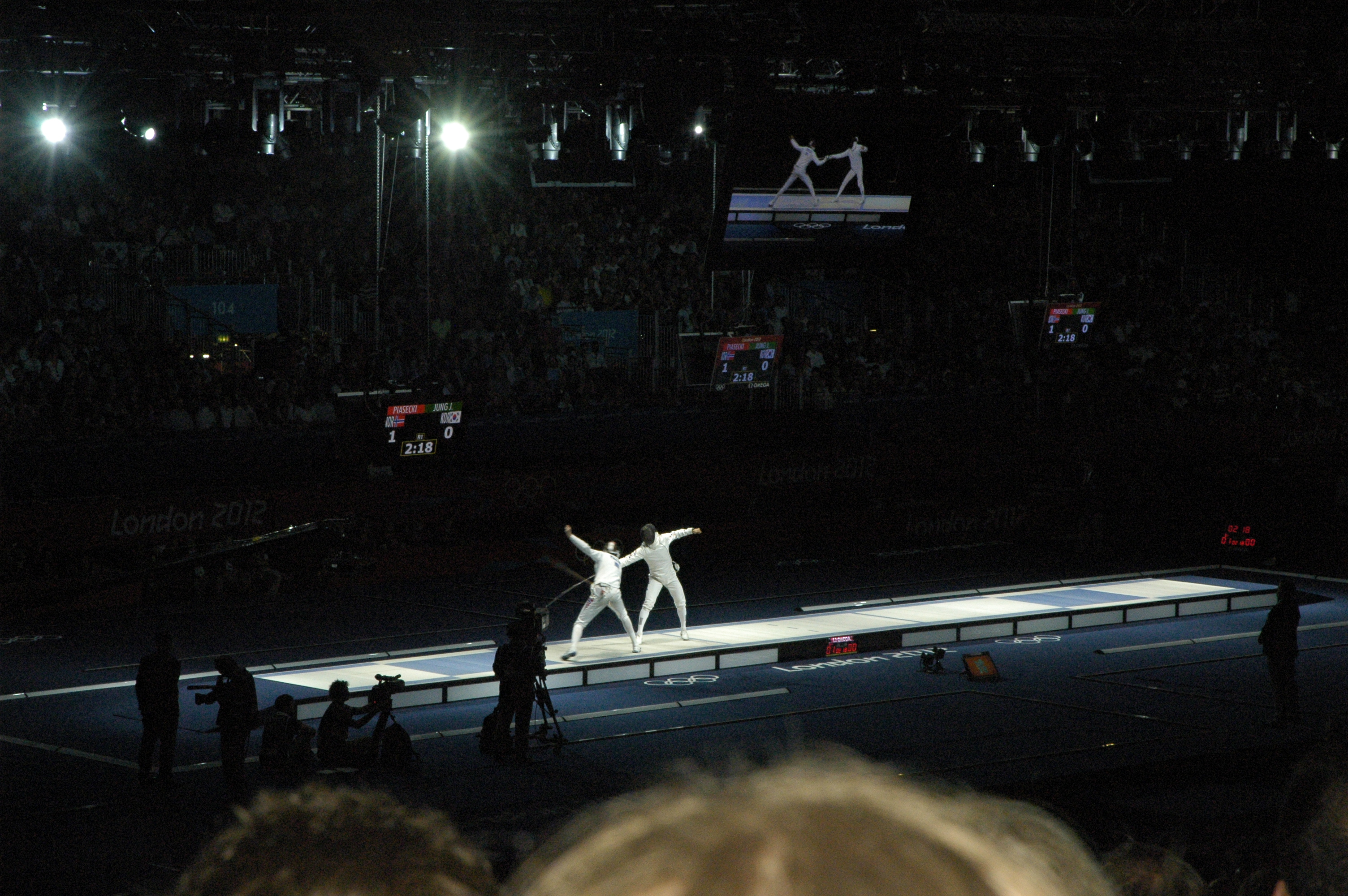 Fencing at the 2012 Summer Olympics – Men's épée, semi final (Bartosz Piasecki, Jung Jin-Sun)